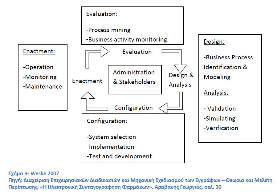 Weske 2007